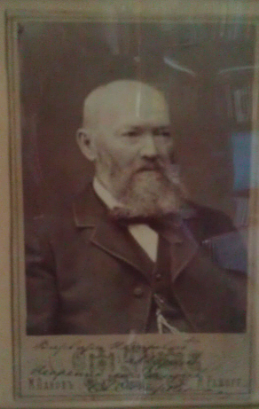 Fotograph of the Russian playwright Aleksandr Nikolayevich Ostrovsky (1823-1886) with an autograph 'sincere love A. Ostrovsky.' to the actress Vavara Petrovna Musil (1853-1927).